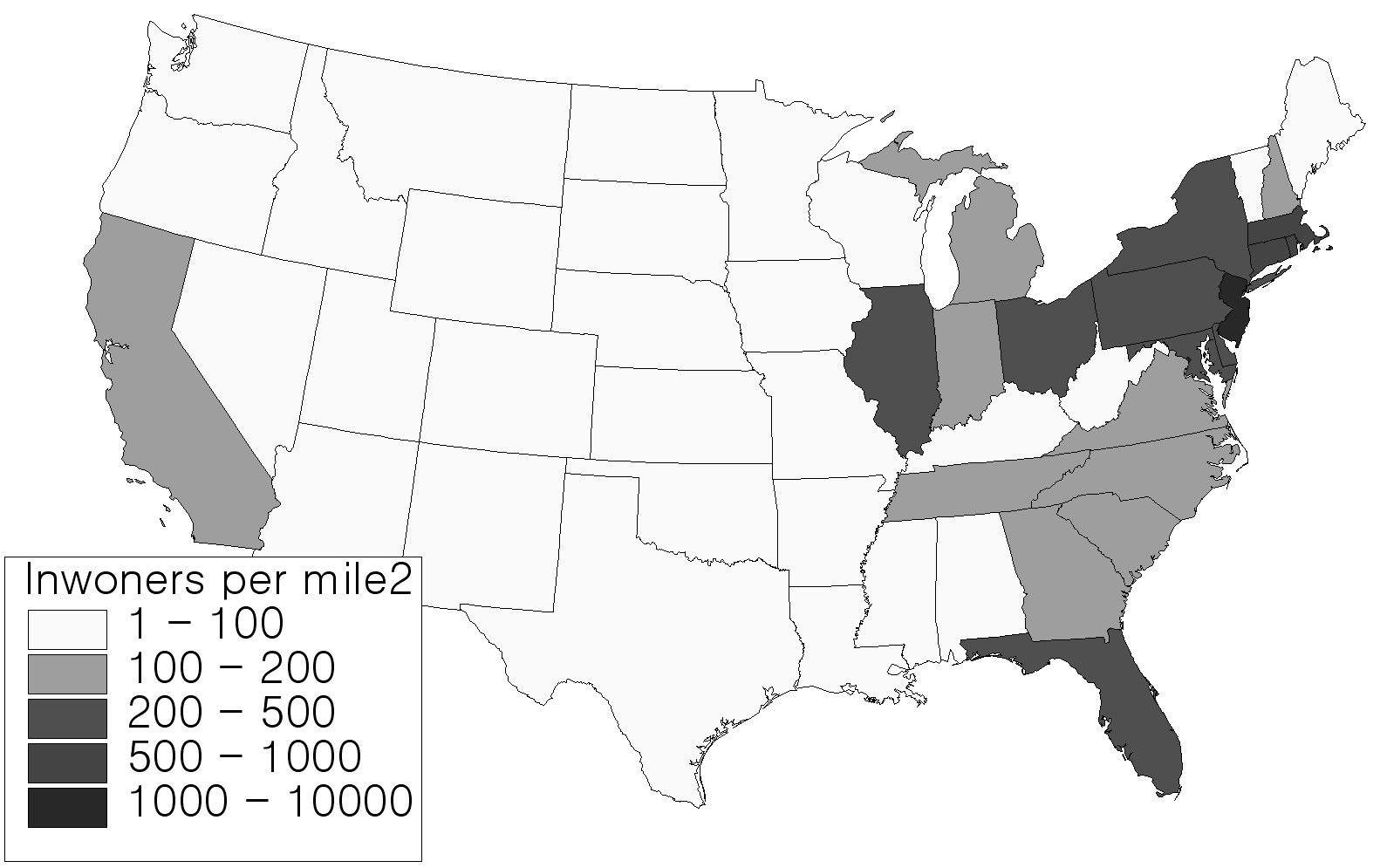 Map showing number of inhabitants per square mile for states of the United States. This version uses a correct ordering of shades of grey.